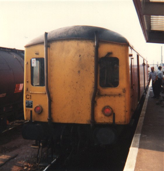 55993, a British Rail Class 128 at Peterborough Platform 5 in the Late 80's in Post Office Red Livery. Gangways have been removed.